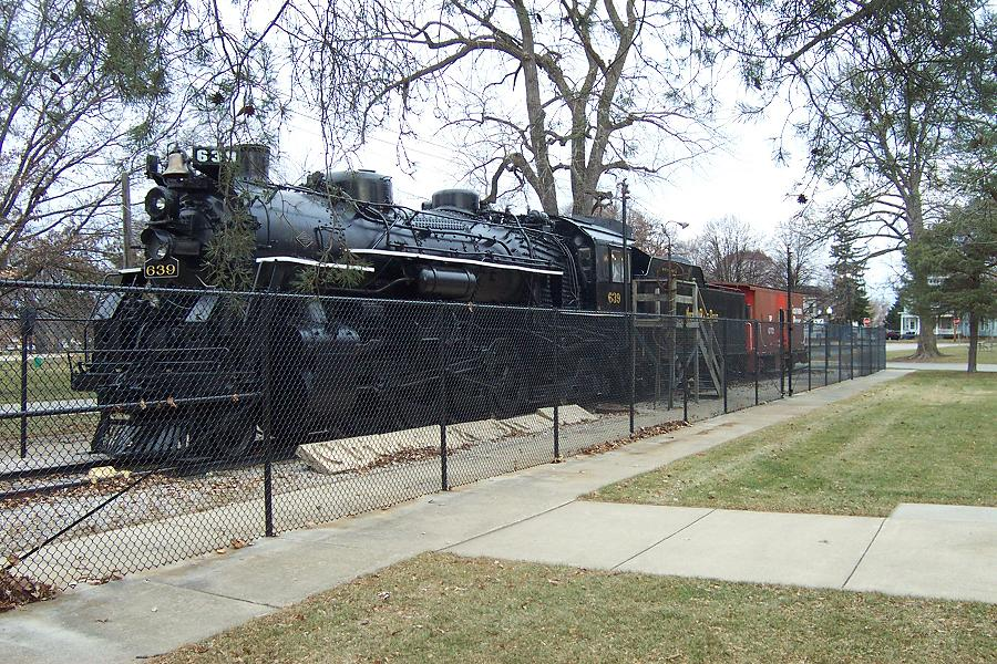 Nickel Plate Road steam locomotive #639, NKP class H-6e 2-8-2 (Lima 6642 of December 1923), with Southern Pacific Company caboose at Miller Park (Bloomington, Illinois)